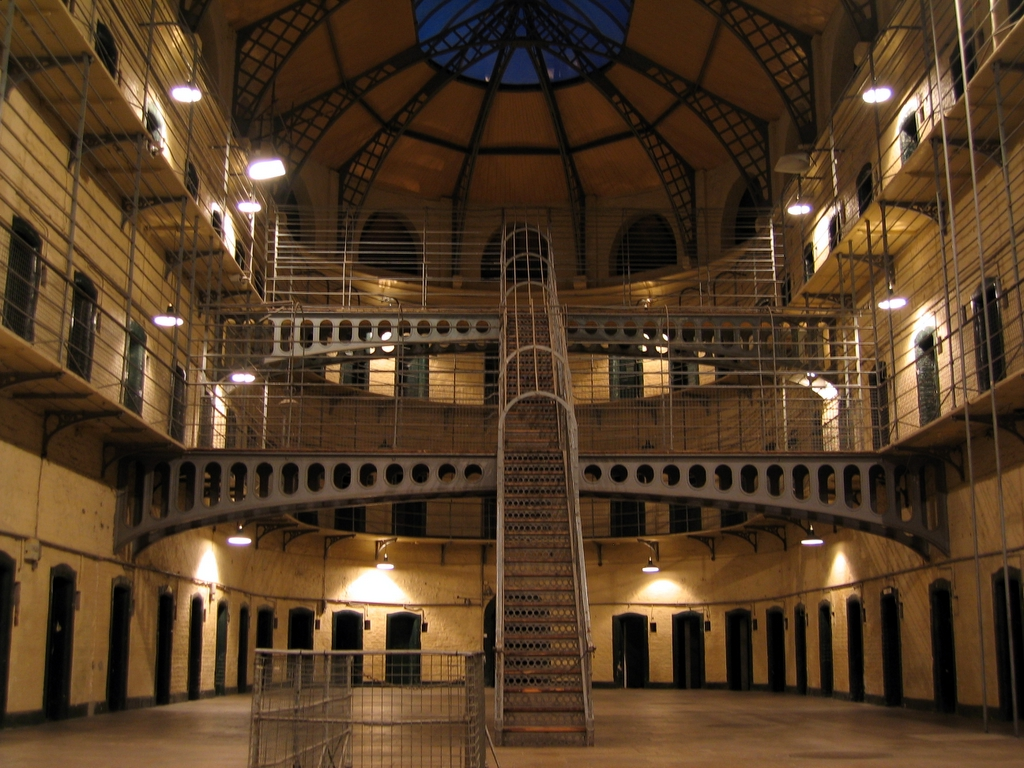 Kilmainham Jail (Victorian wing).